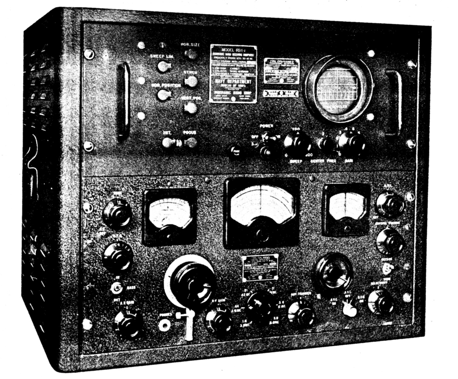 RBY-1, US Navy Panoramic Radio Adaptor RBY-1 (i.e. a radio frequency spectrum analyzer) with Hallicrafters SX-28